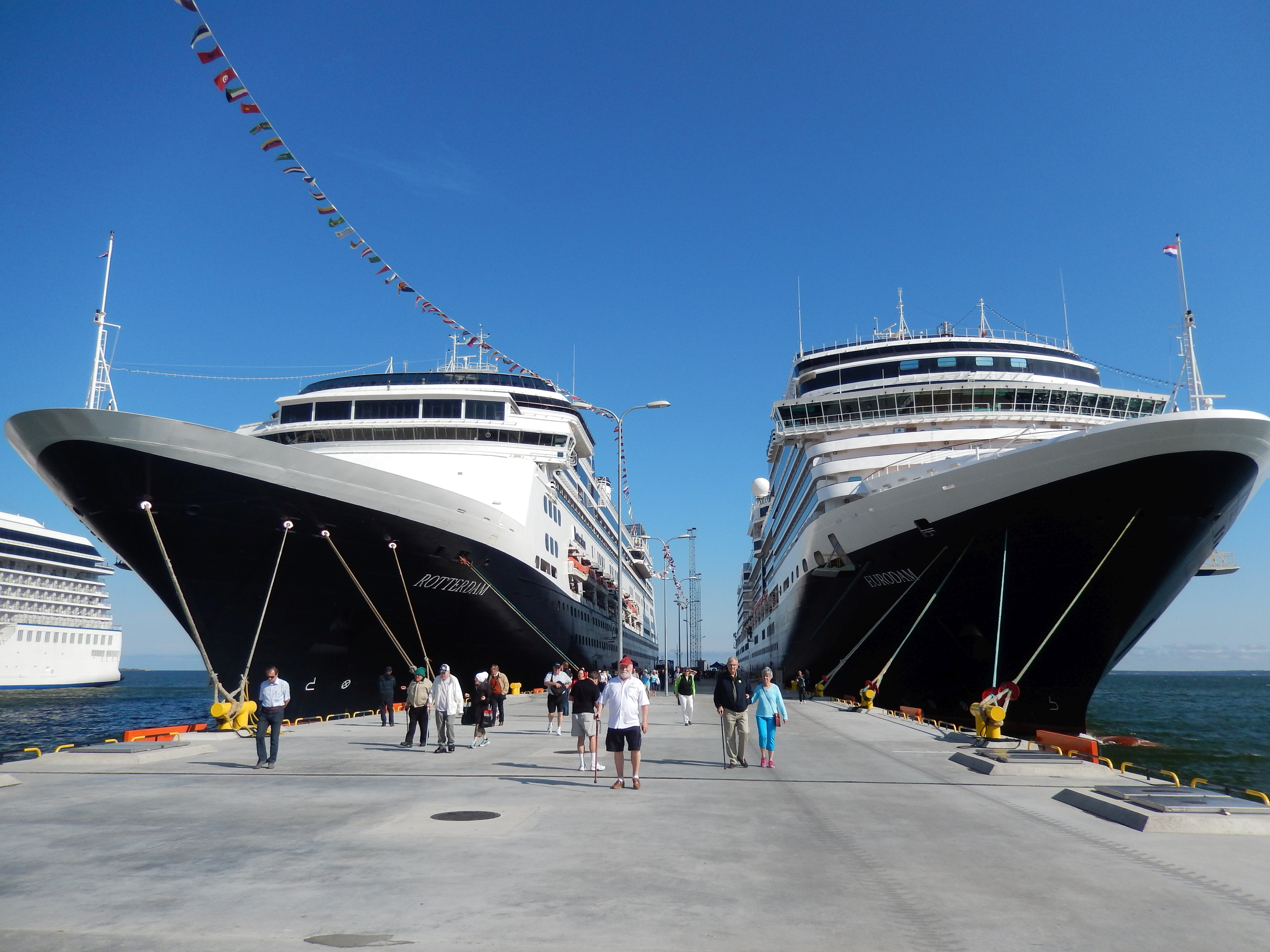 Holland America Lines MS Rotterdam at pier 26 and MS Eurodam at pier 27 docked at Tallinn Estonia cruise port (Tallina vanasadama kruisikai 26-27 ehitatud 2014. aastal) 10 July 2014